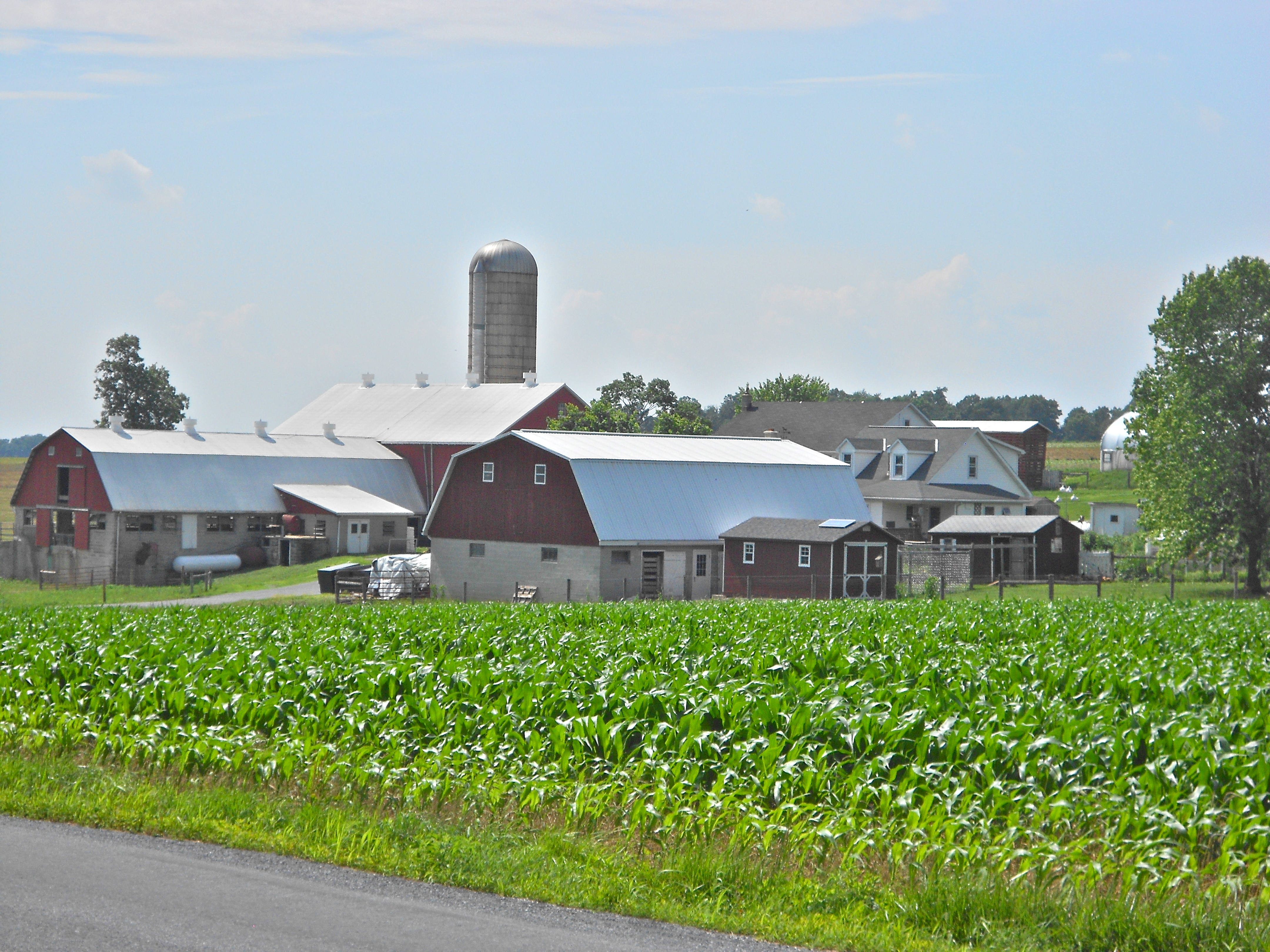 Farm in Eden Township, Lancaster County, Pennsylvania, across from the township office